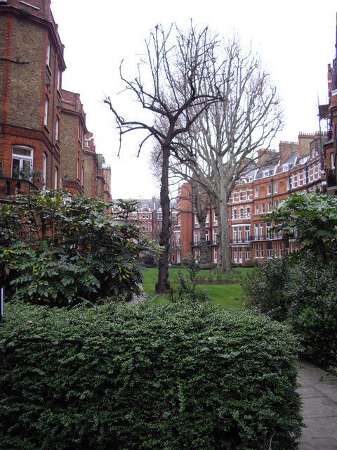 Egerton Gardens Picture taken from Egerton Terrace